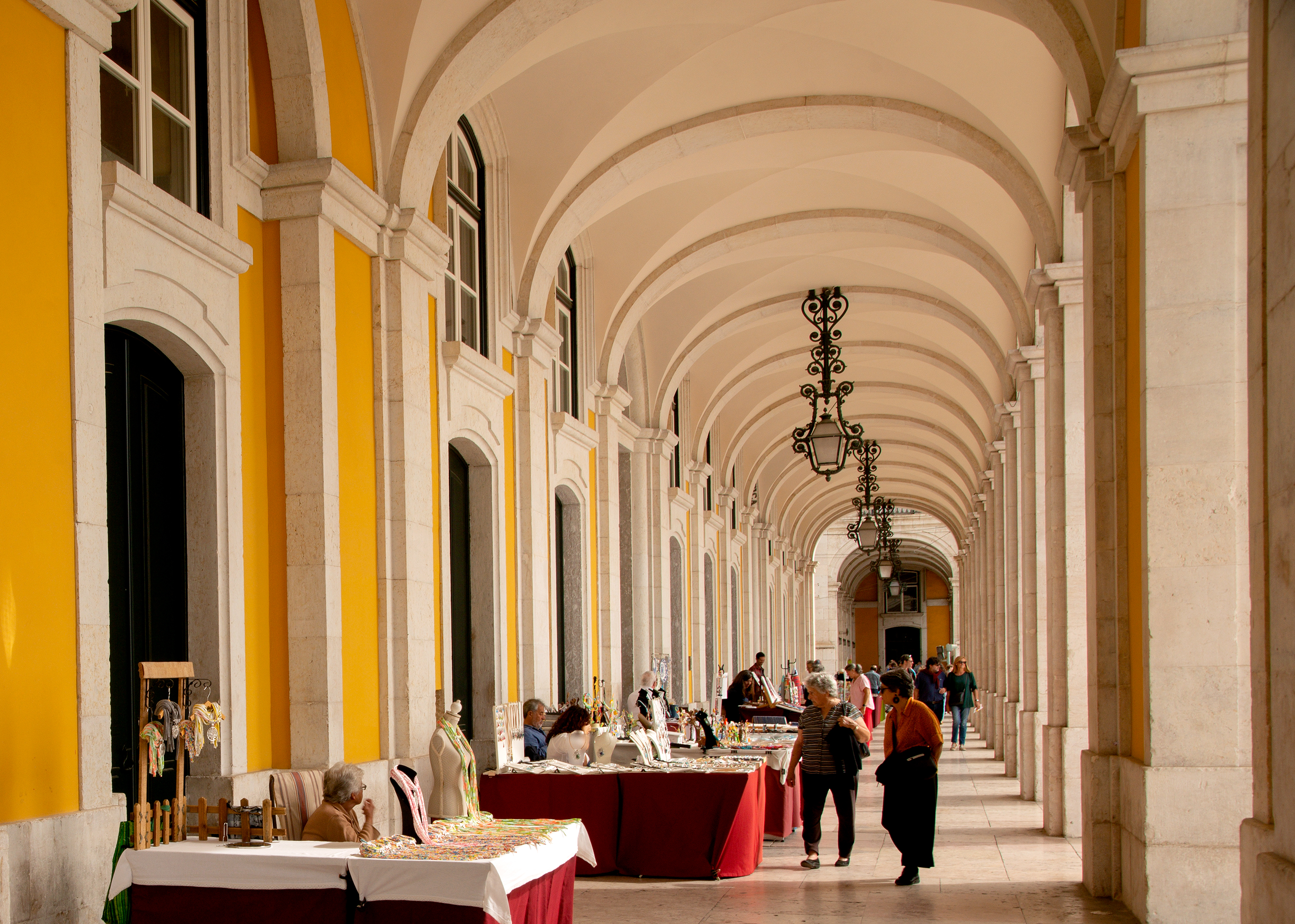 Areas covered by arches at both sides of the square include vendors, restaurants and offices